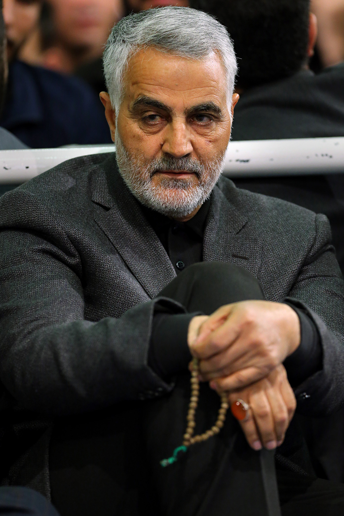 Ayatollah Sayyed Ali Khamenei And Qasem Soleimani